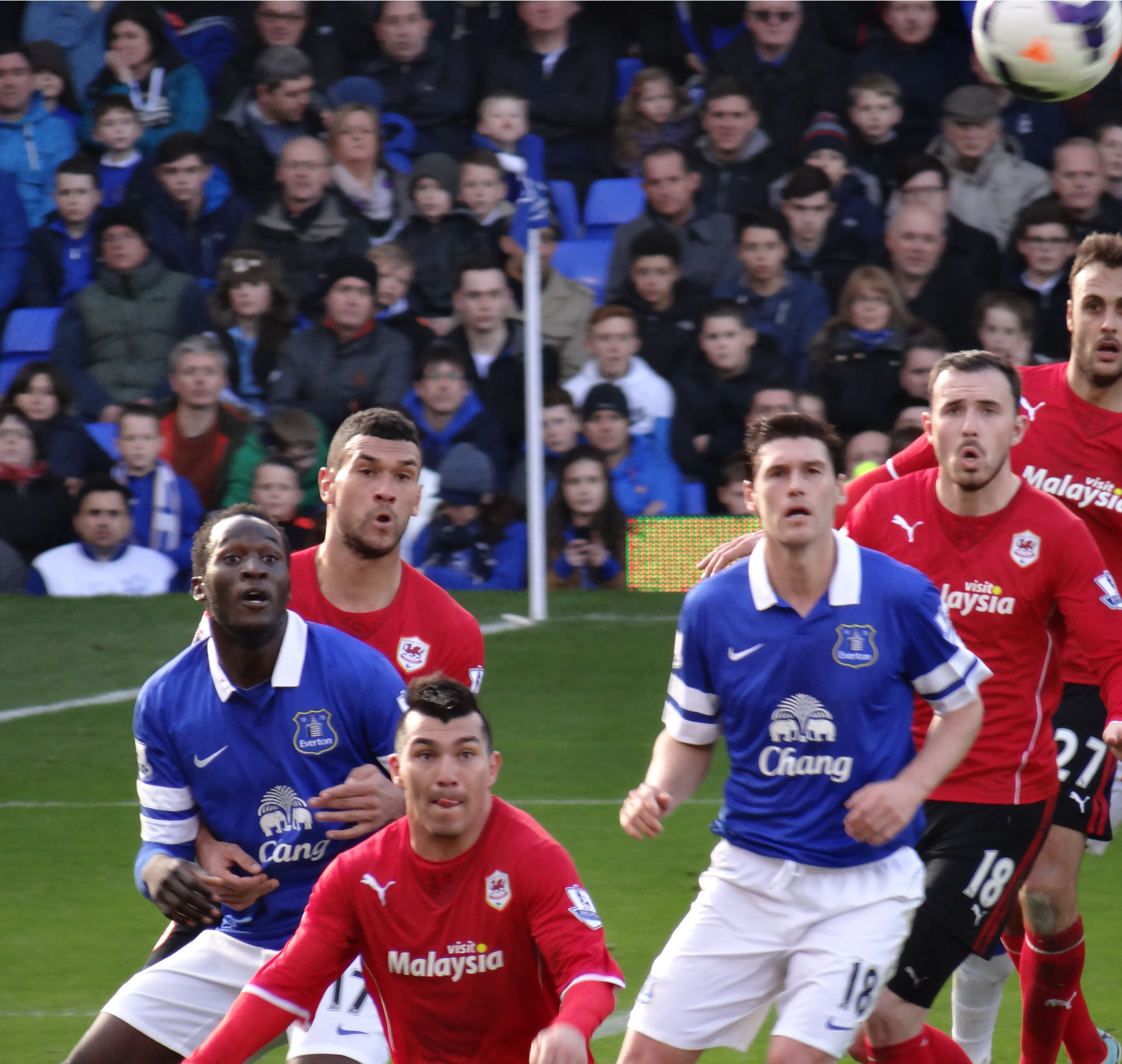 Players of Everton (in blue; from left Romelu Lukaku and Gareth Barry) and Cardiff City (in red; from left Steven Caulker, Gary Medel, Jordon Mutch, Juan Torres Ruis 'Cala').